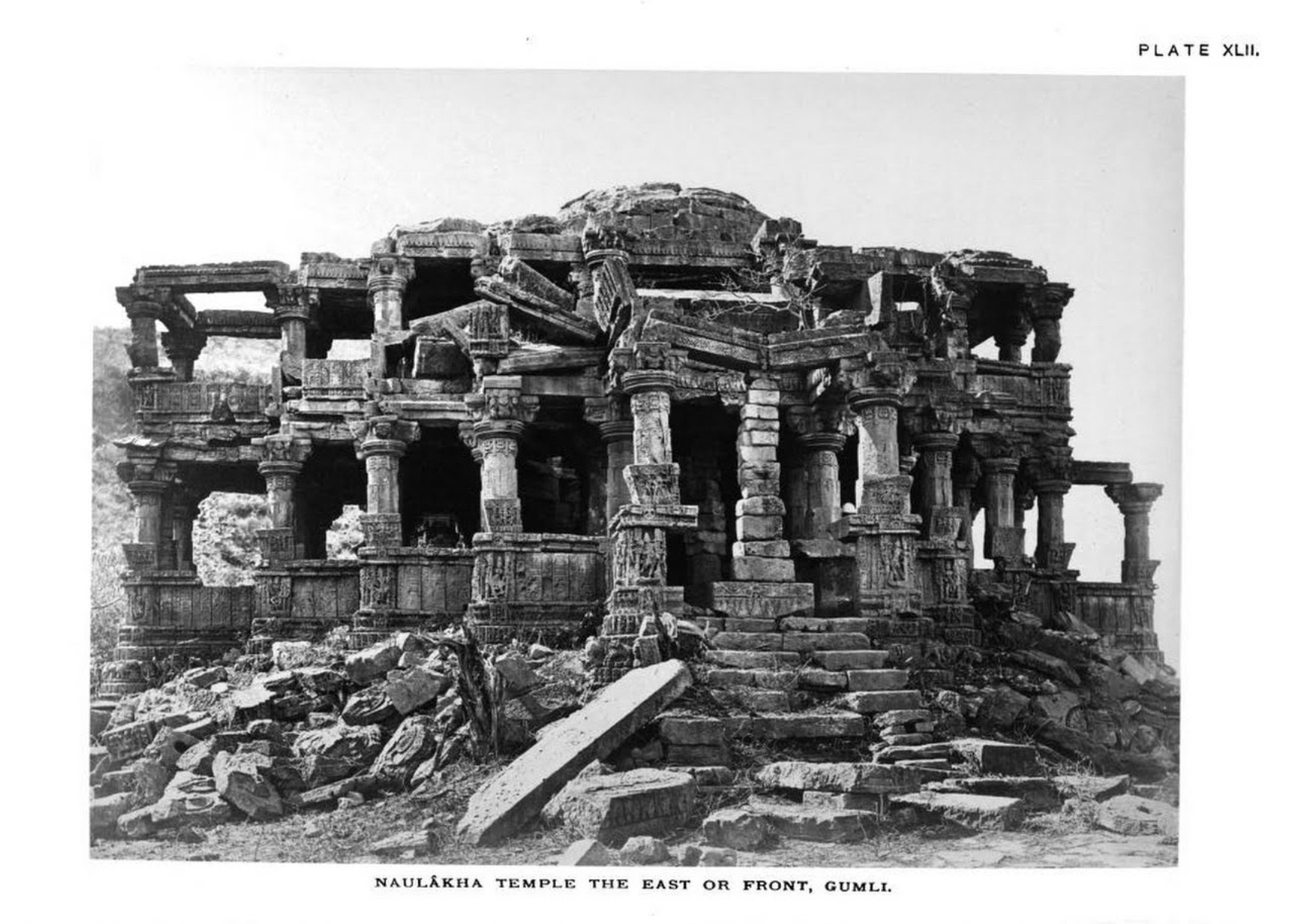 Navalakha Hindu Temple in Ghumli, Gujarat Maru-Gurjara style Ruins photographed in the 19th-century. The temple was restored in the 20th century.